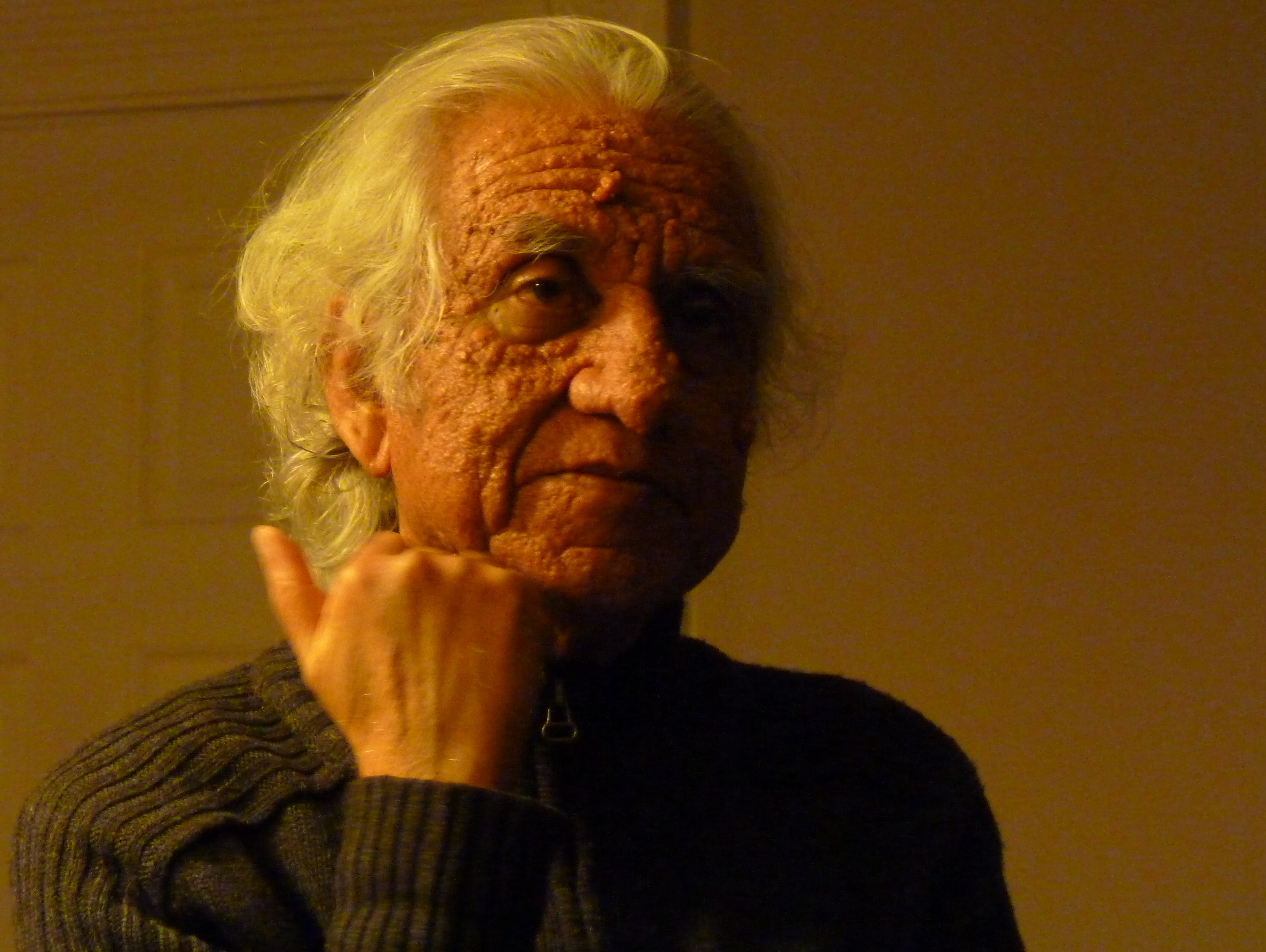 Picture taken during a trip to the Lake of Ozarks, MO.